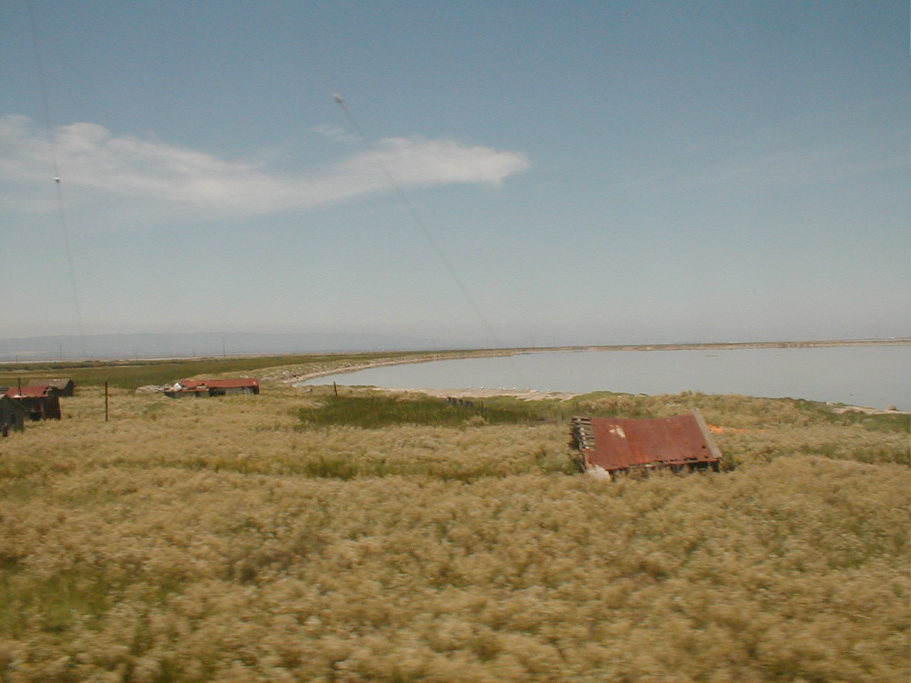 The buildings you see here are left over from a town that used to be on this site, called Drawbridge, California.